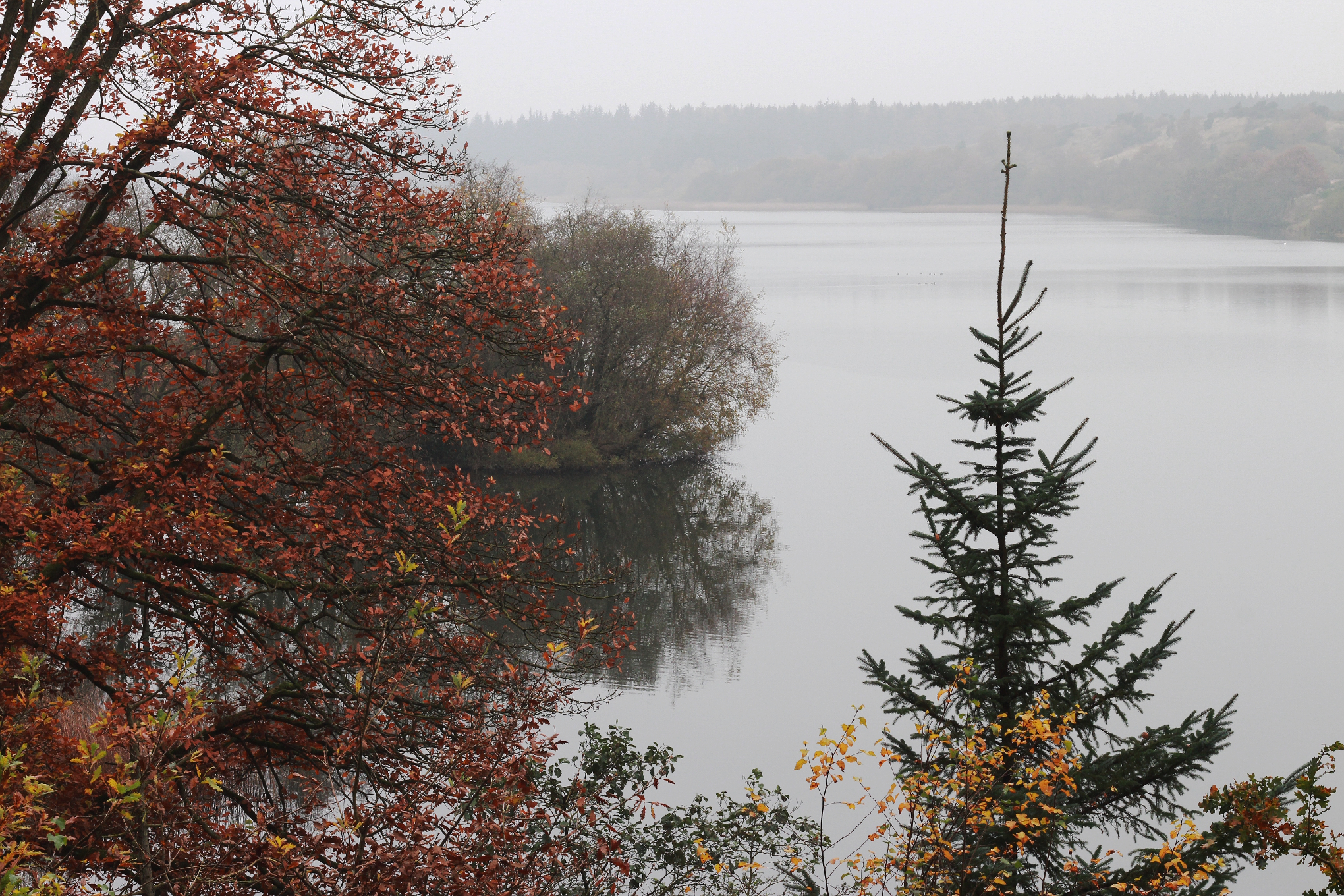 Rørbæk Sø: Seen from the south east.